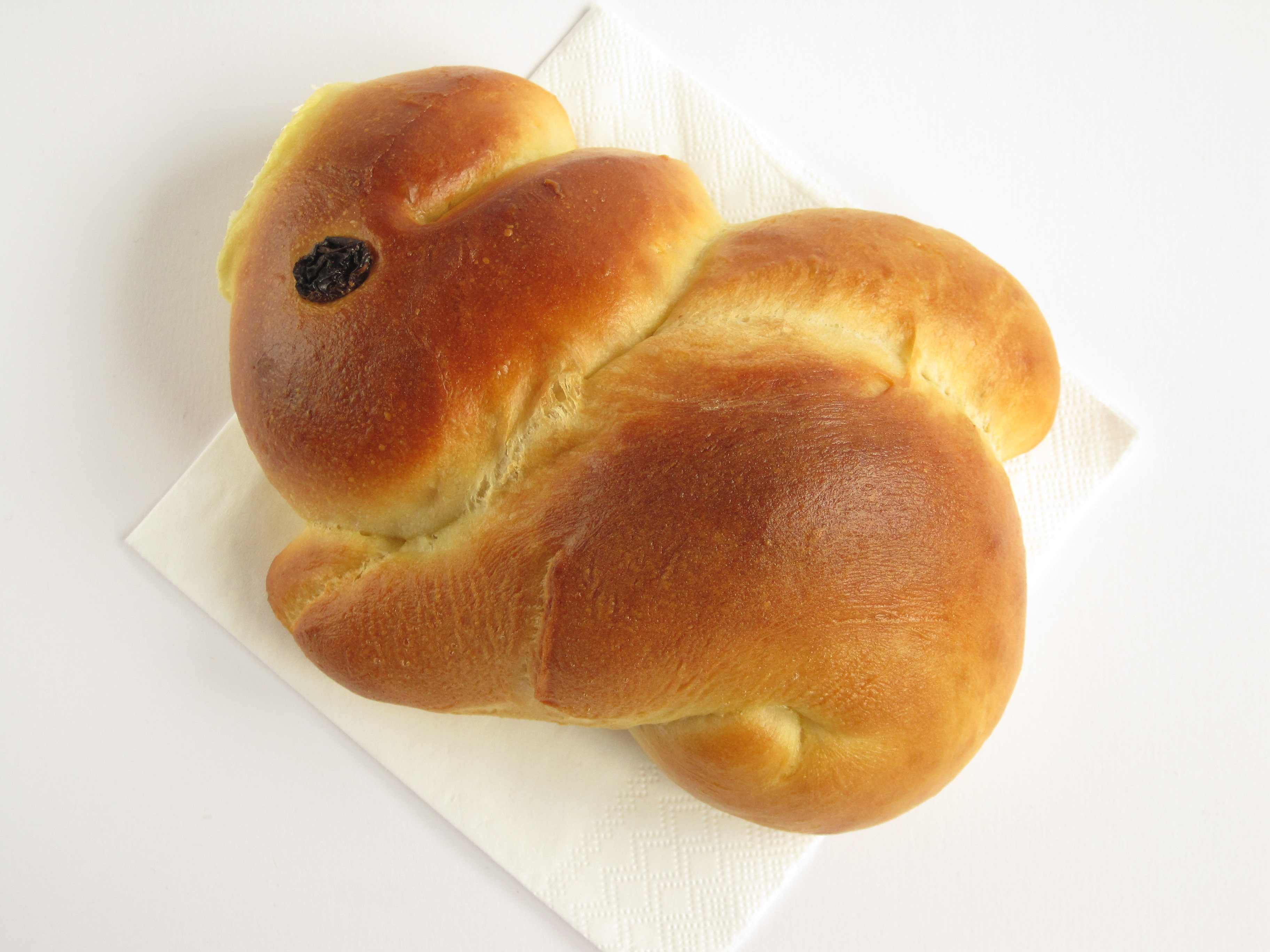 Home made Easter bunny bread roll made from yeast dough